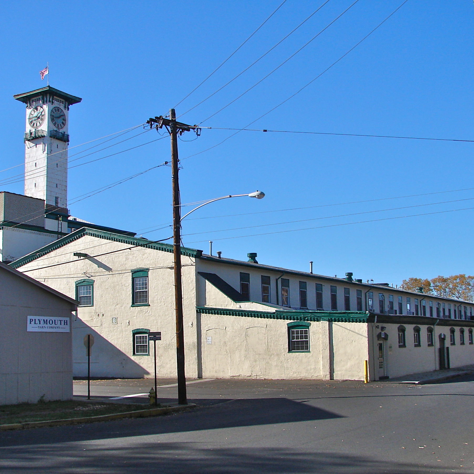 Grundy Mill Complex on the NRHP since January 9, 1986. At the western corner of Jefferson Avenue and Canal Street, Bristol, Pennsylvania, right next to the Delaware Canal and across the street from Delaware Canal State Park.